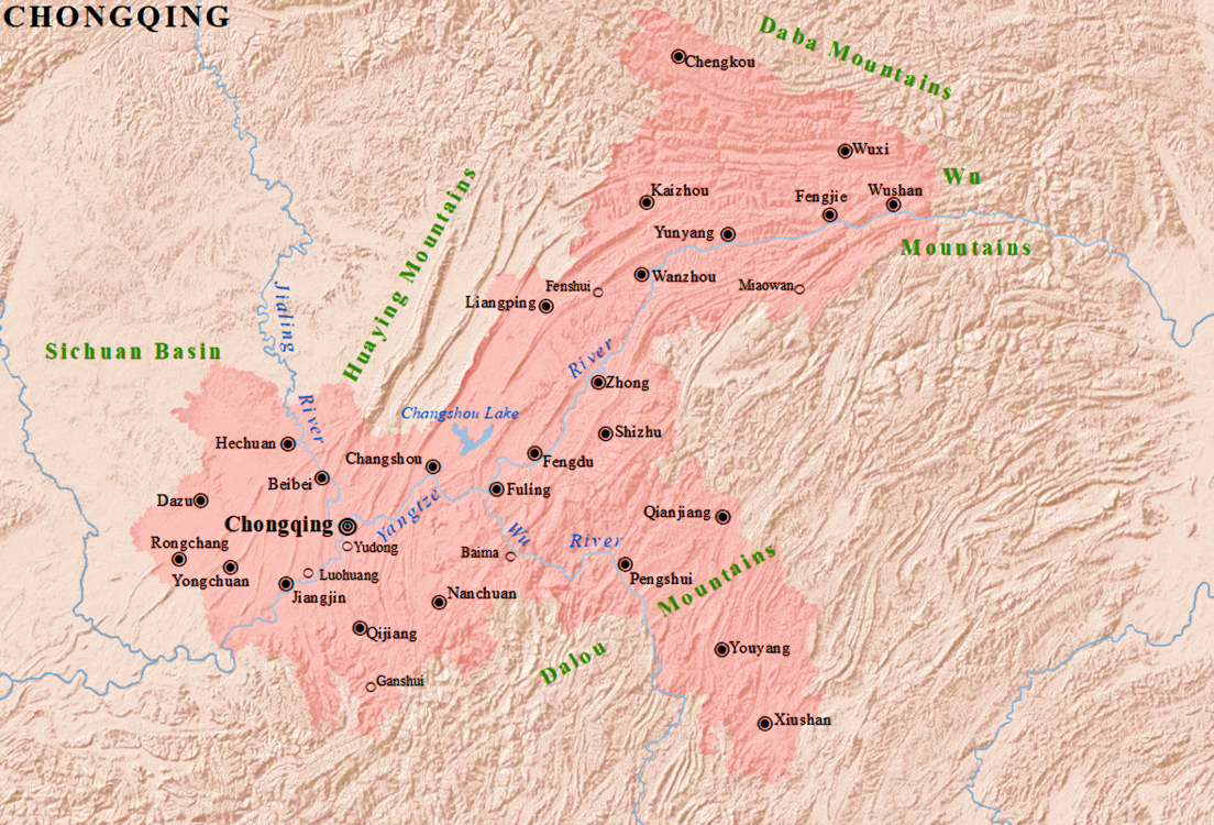 Map of the directly-controlled municipality of Chongqing